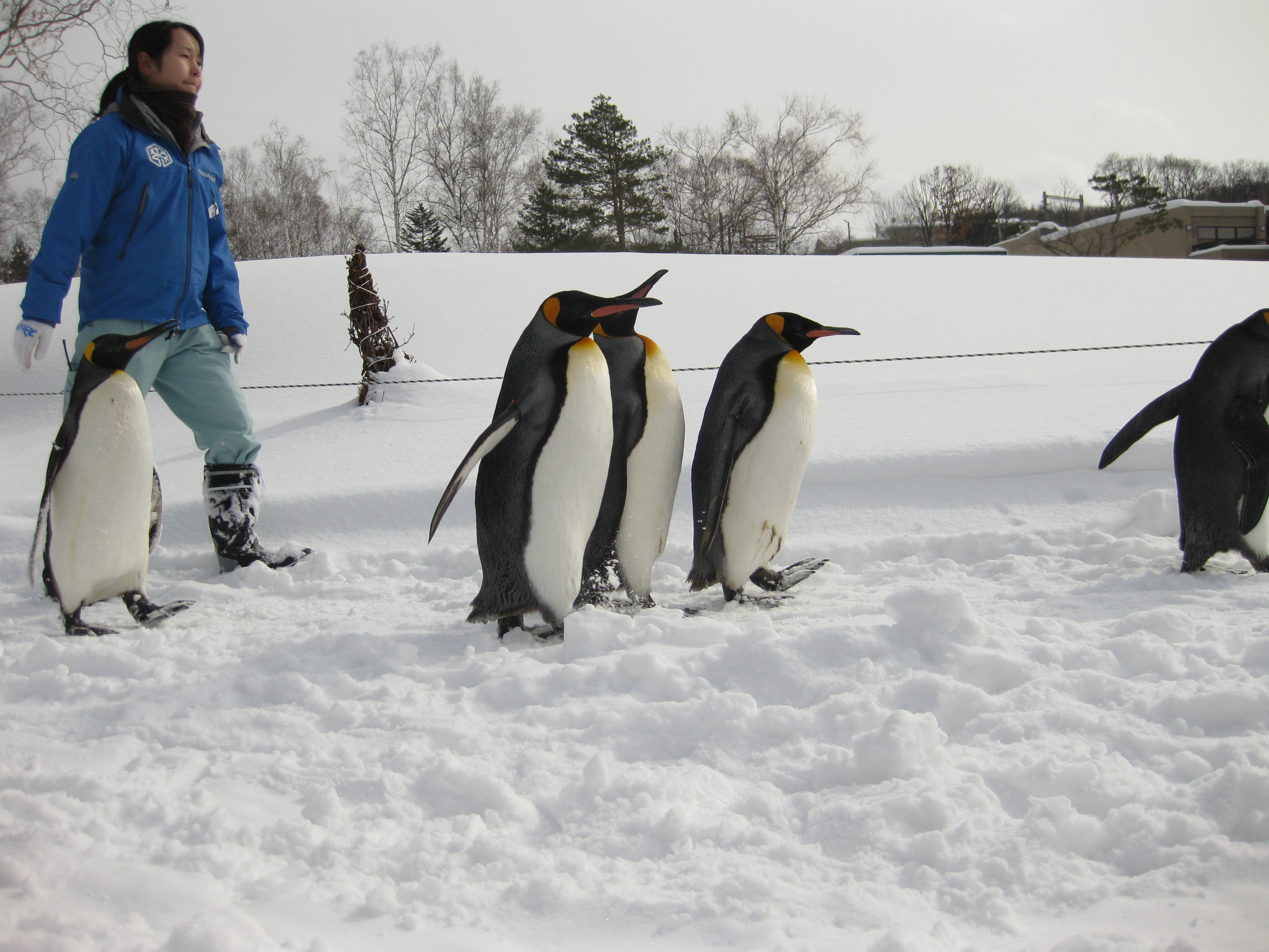 Walking King Penguins in Asahiyama Zoo